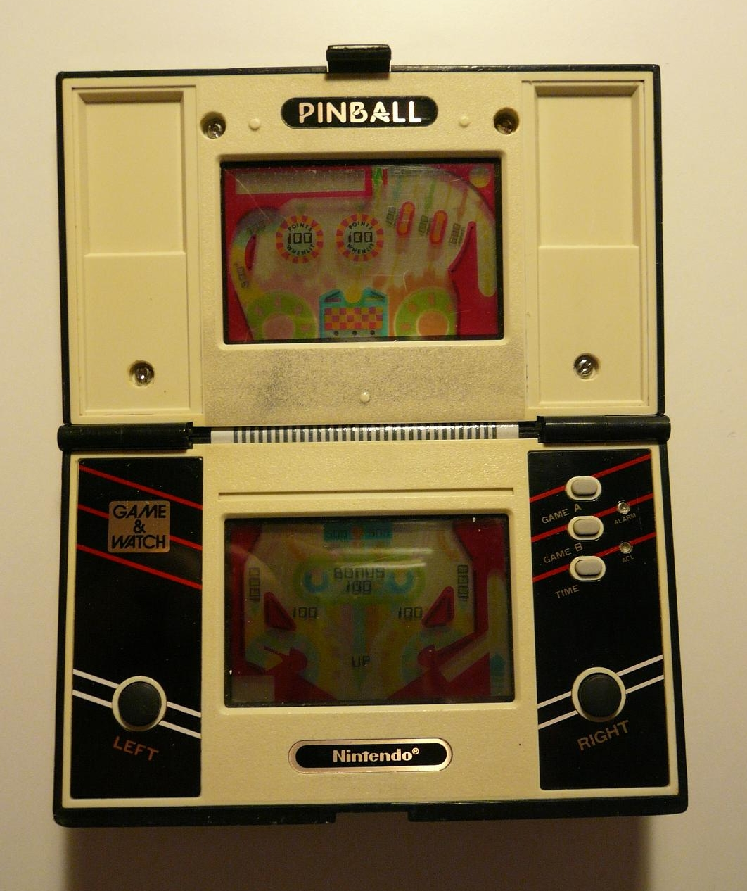 Pinball - Game&Watch - Nintendo